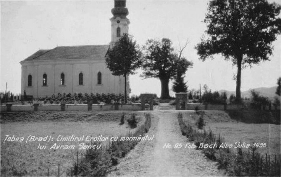 Heroes Cemetery in Ţebea, Hunedoara, 1935